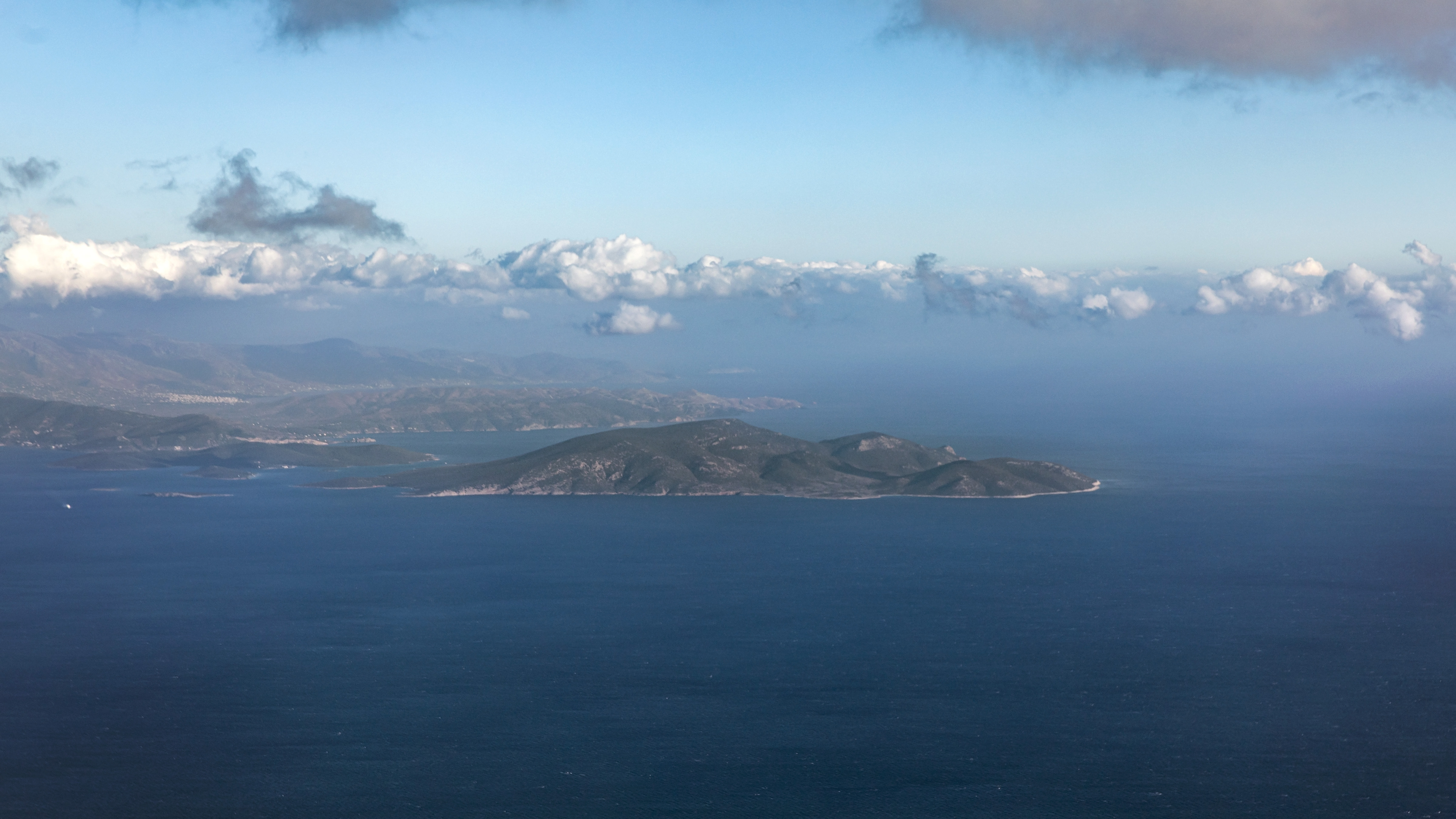 Megalonisos/Petalioi, Greece.